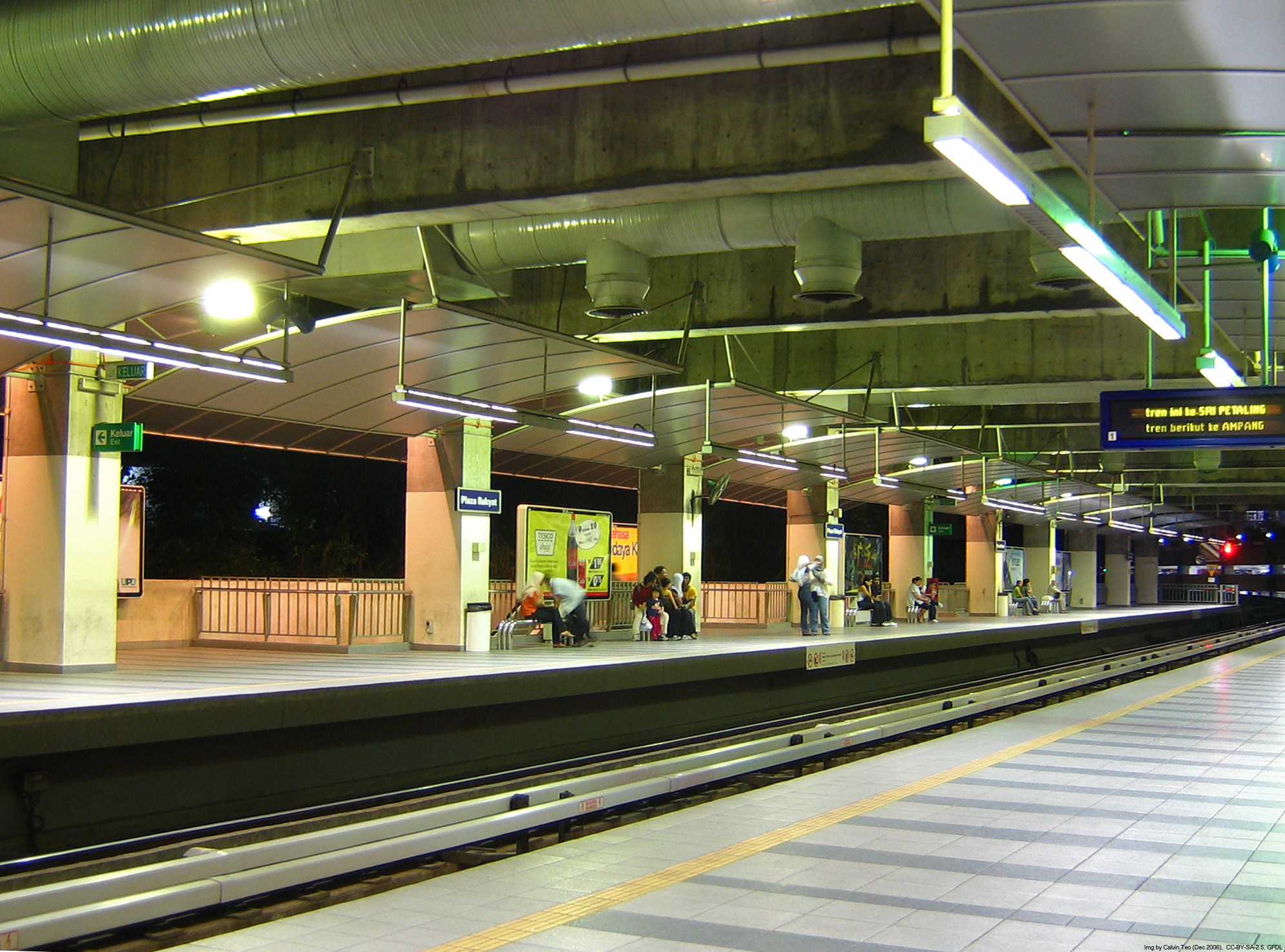 Plaza Rakyat LRT Station, on the STAR LRT in Kuala Lupur, Malaysia